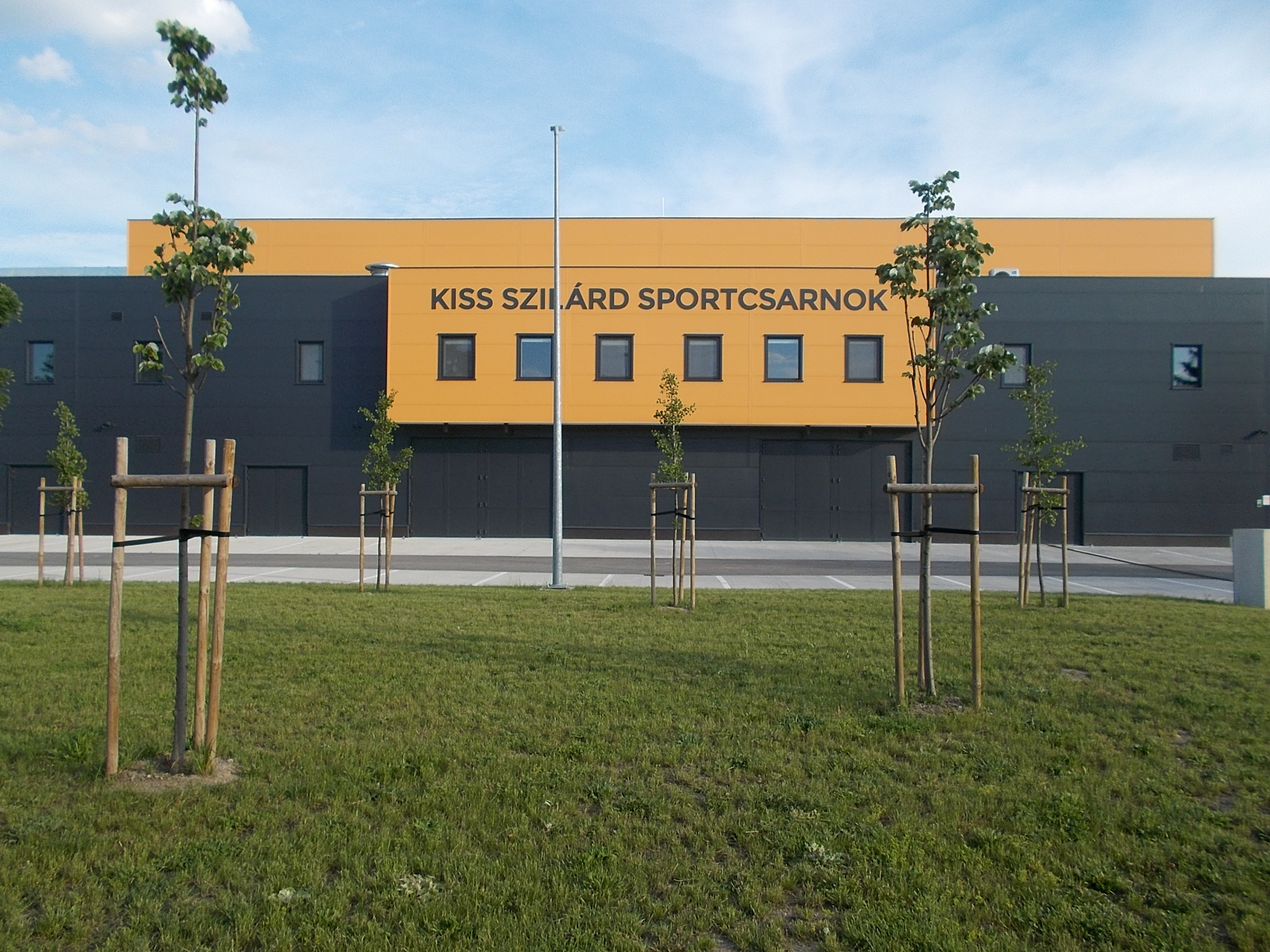 Siófok KC, Kiss Szilárd Arena - Fokihegy neighborhood, Siófok, Somogy County, Hungary.